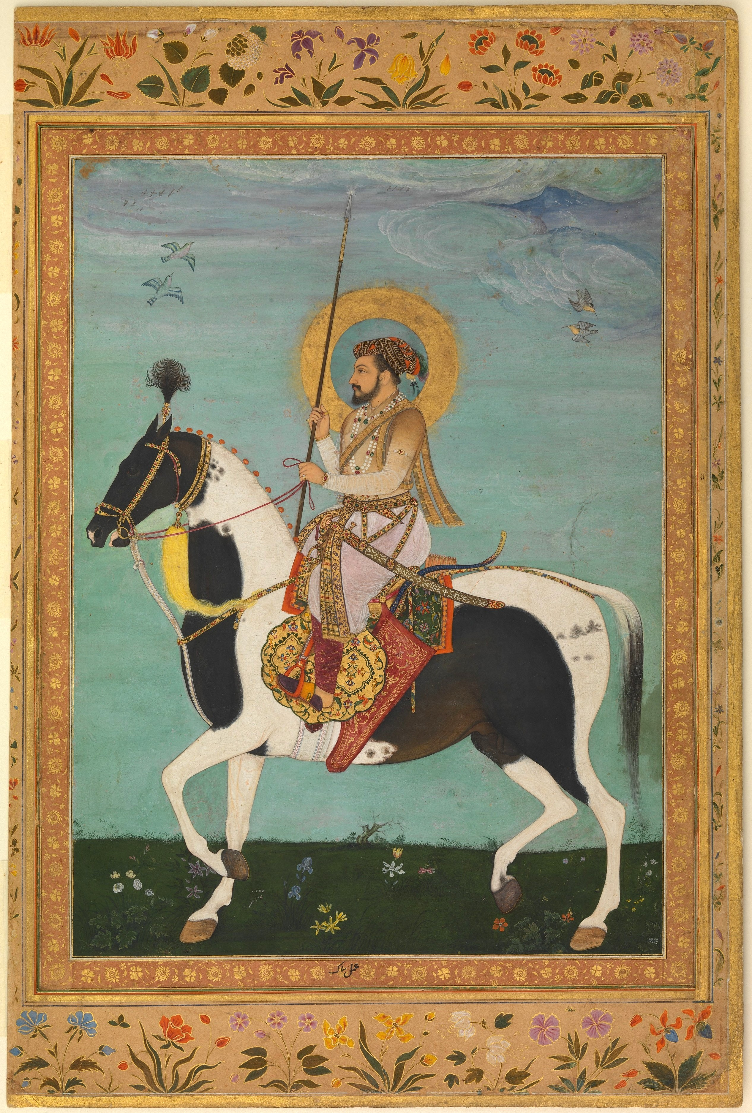 Payag, Shah Jahan on Horseback, Folio from the Shah Jahan Album ca. 1630, Metmuseum